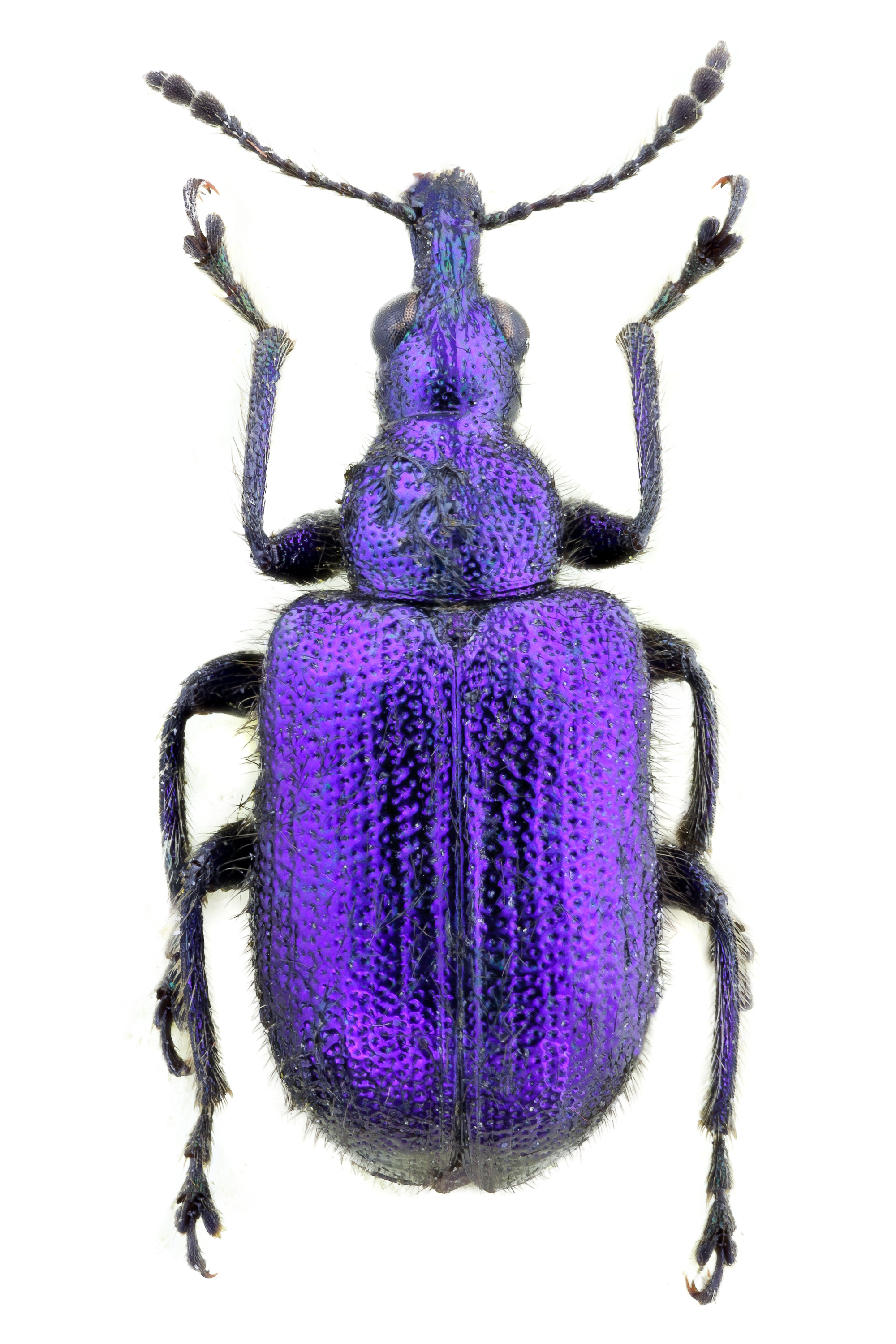 Lasiorhynchites sericeus